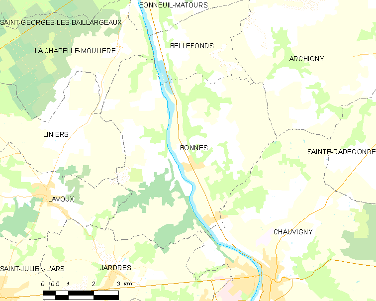 Map of French municipality Bonnes